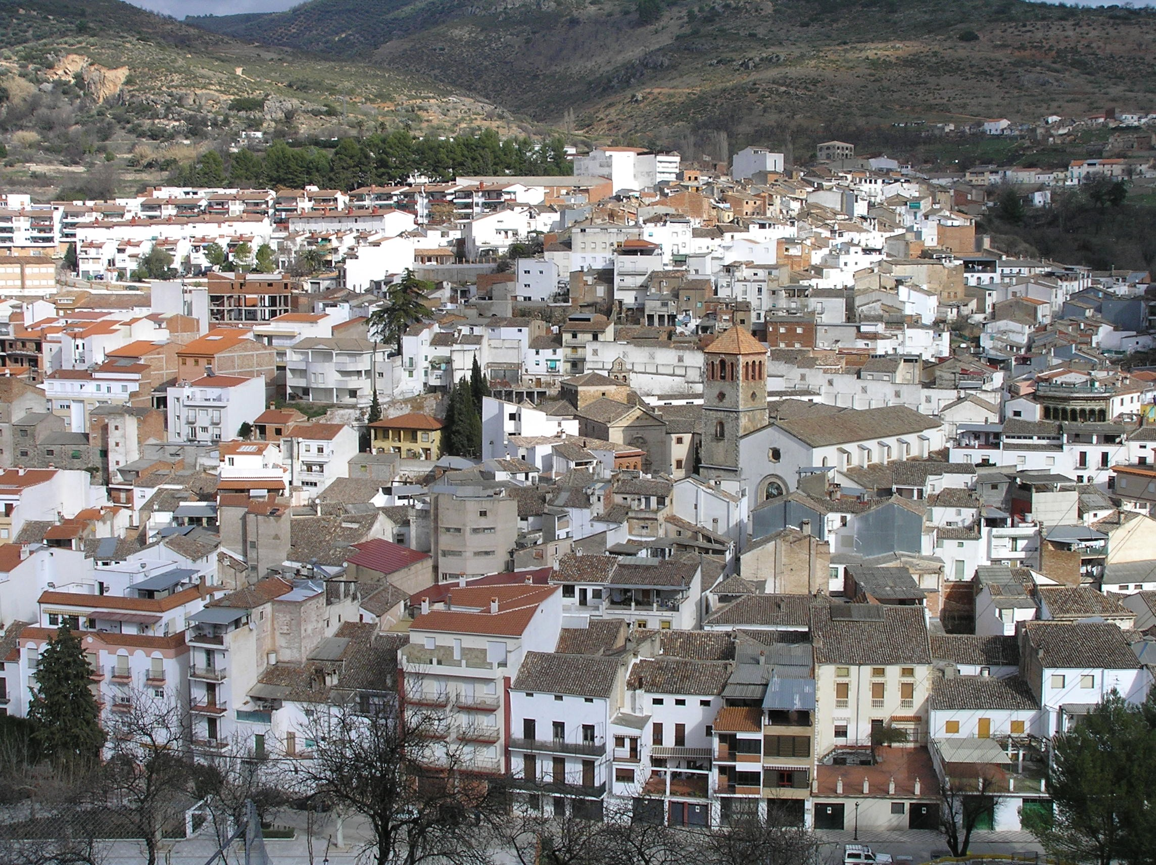 Panorámica